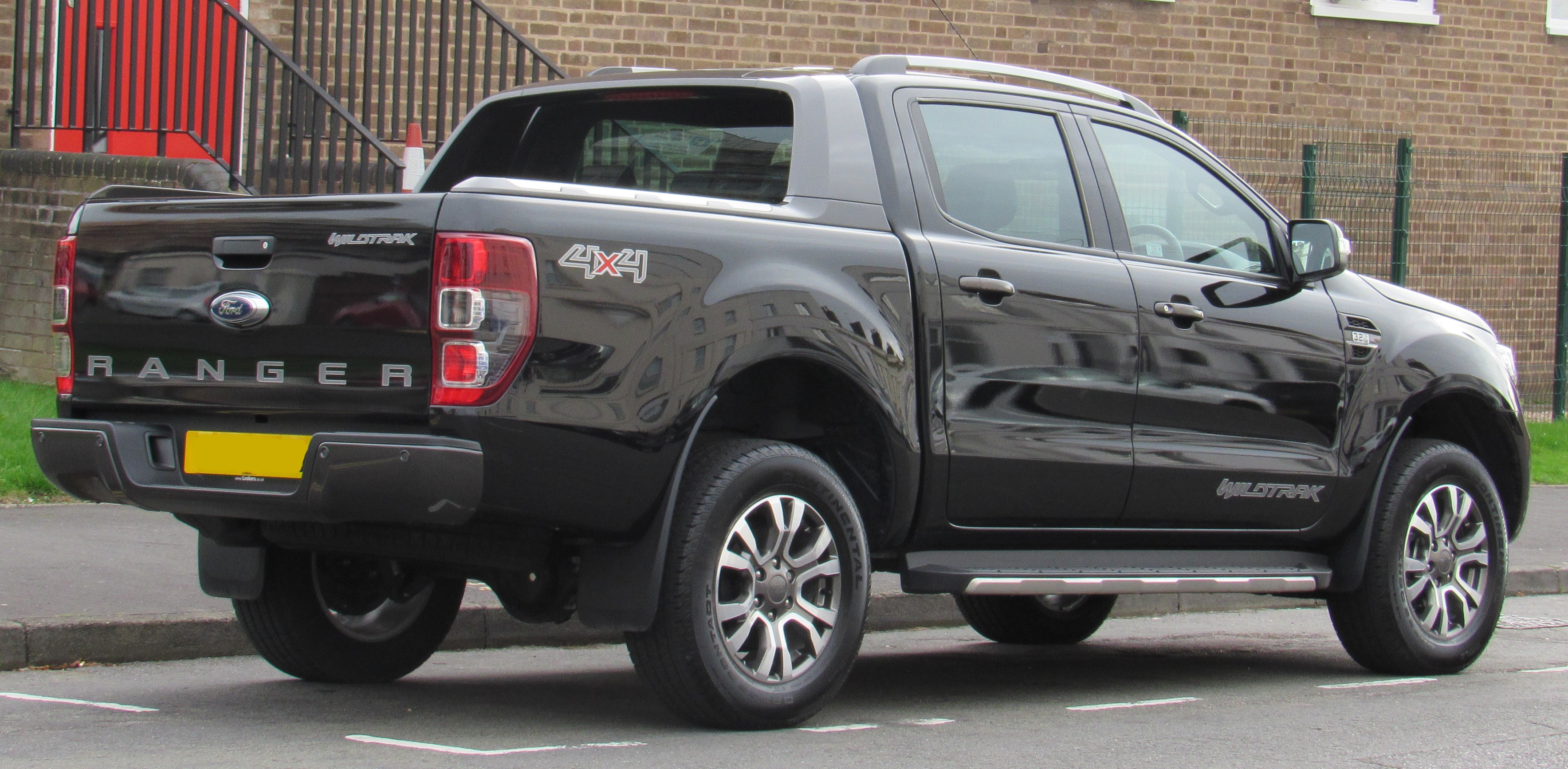 2017 Ford Ranger Wildtrak 4X4 facelift 3.2 Rear